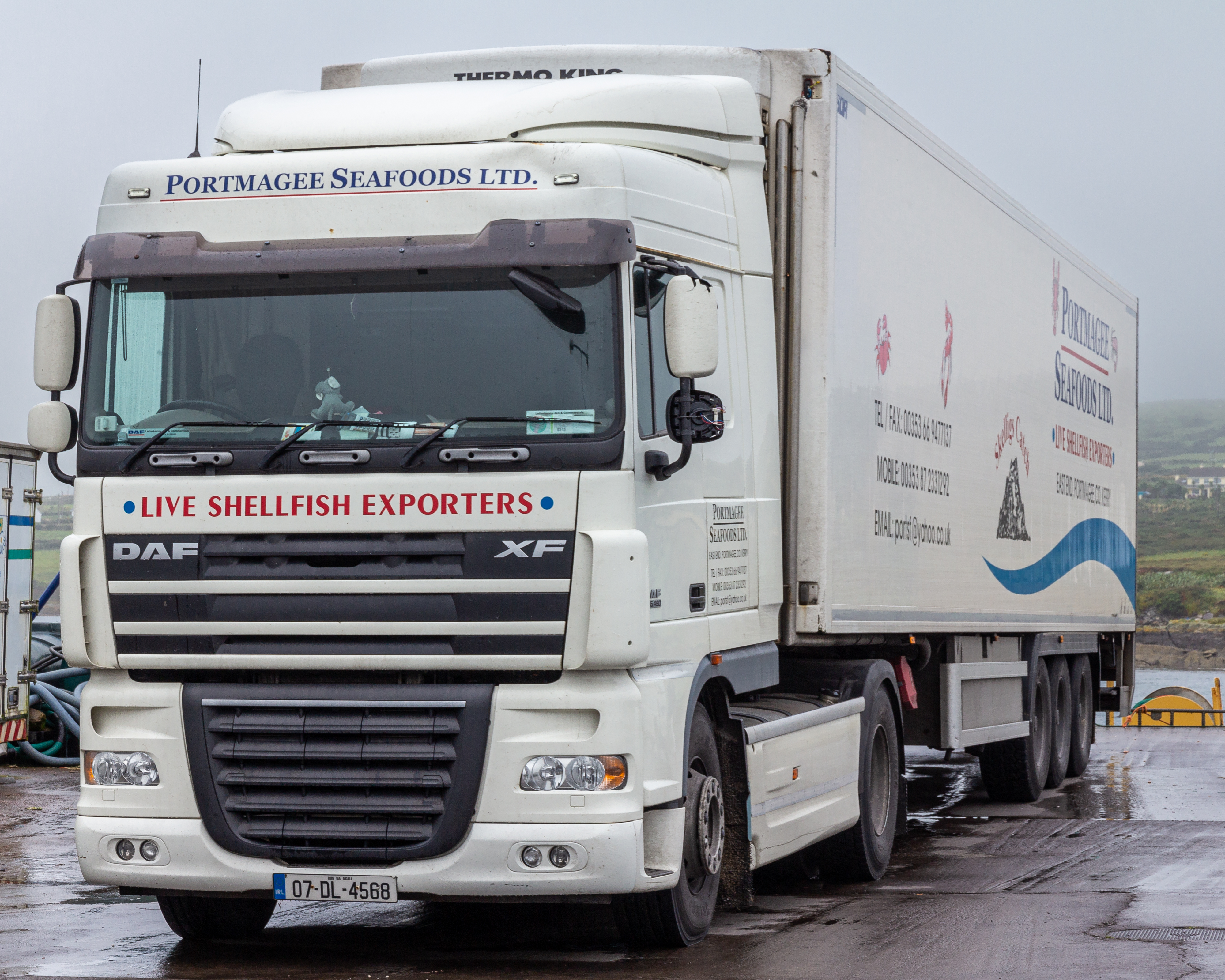 DAF XF105 in Portmagee